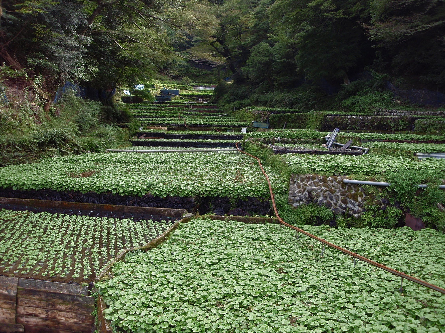 Ikadaba Wasabi Fields in Izu, Shizuoka Prefecture, Japan.